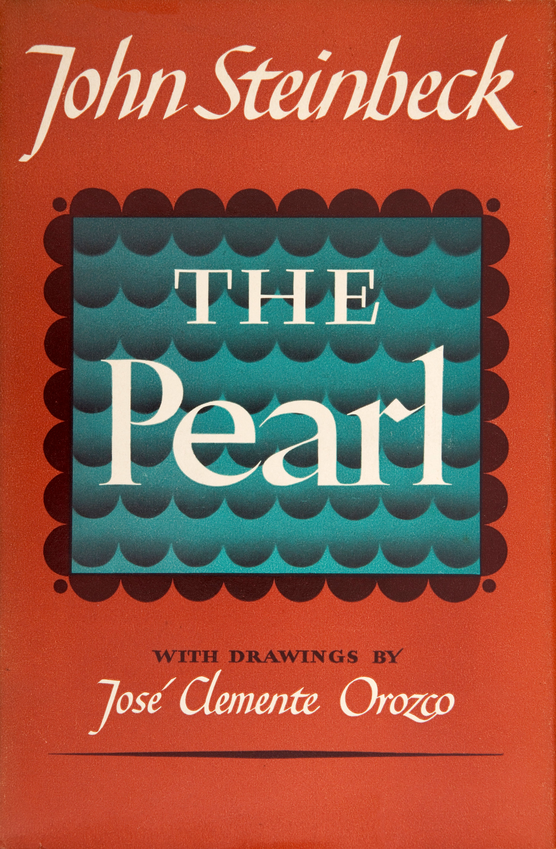 First-edition dust jacket cover of The Pearl (1947) by the American author John Steinbeck.